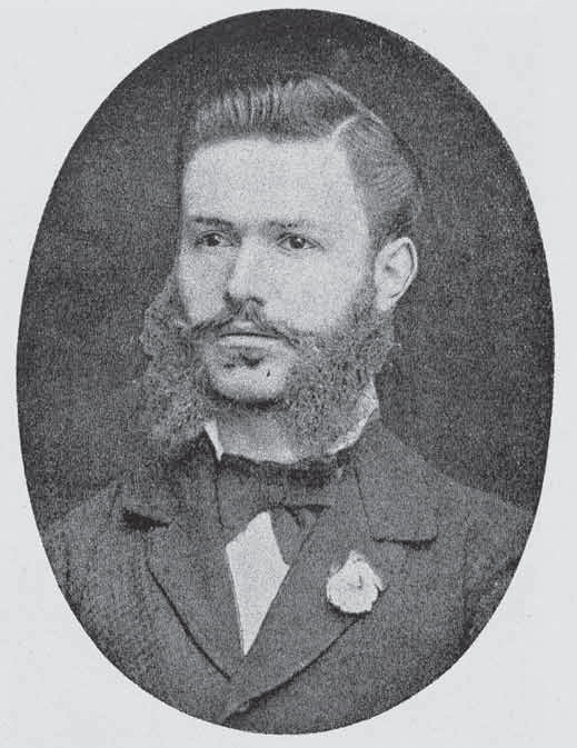 Bulgarian teacher Nestor Danailov from Tresonche